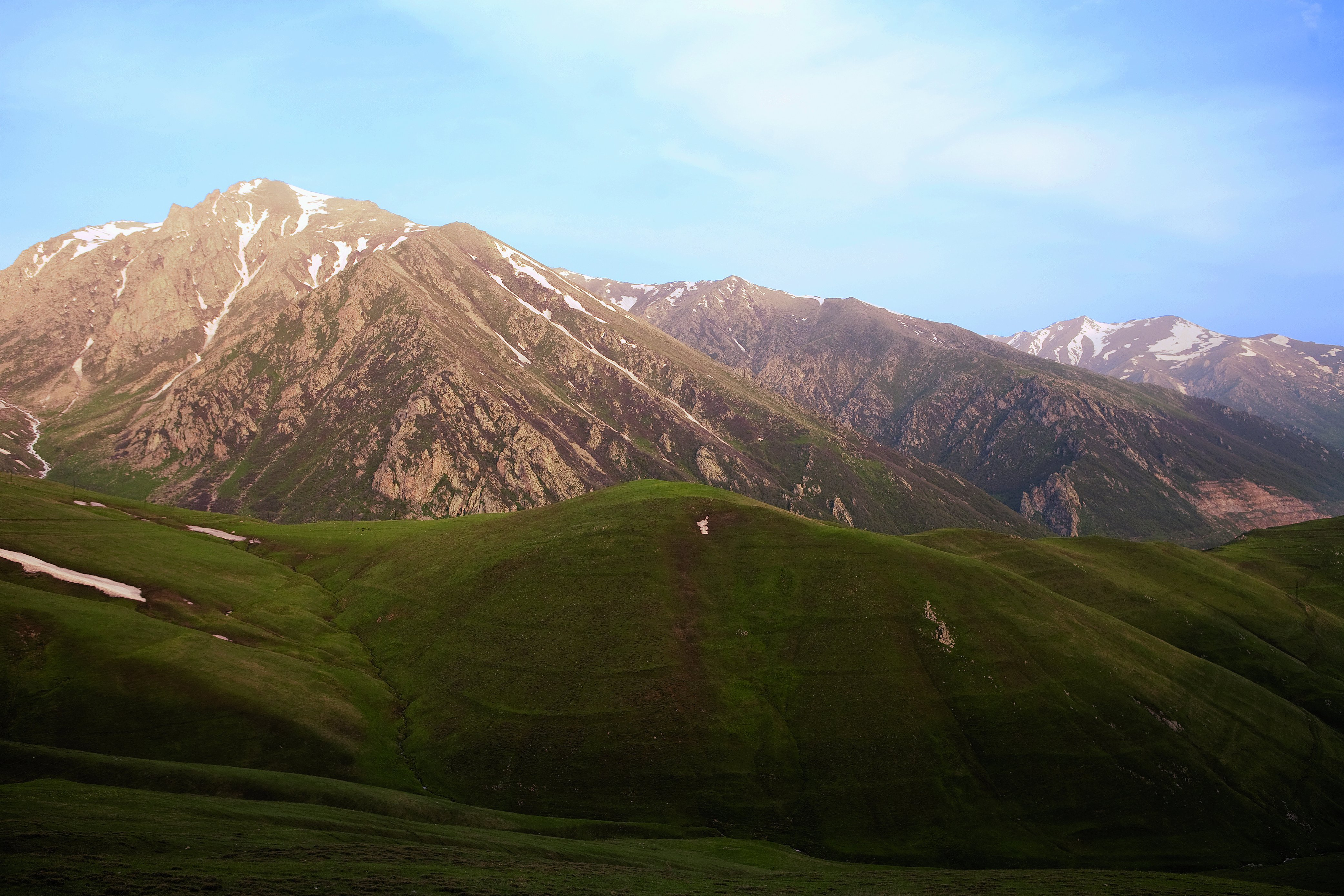 The View of the Armenian Plateau